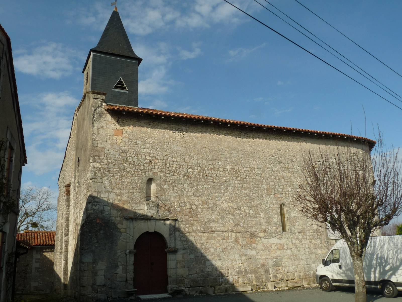 church